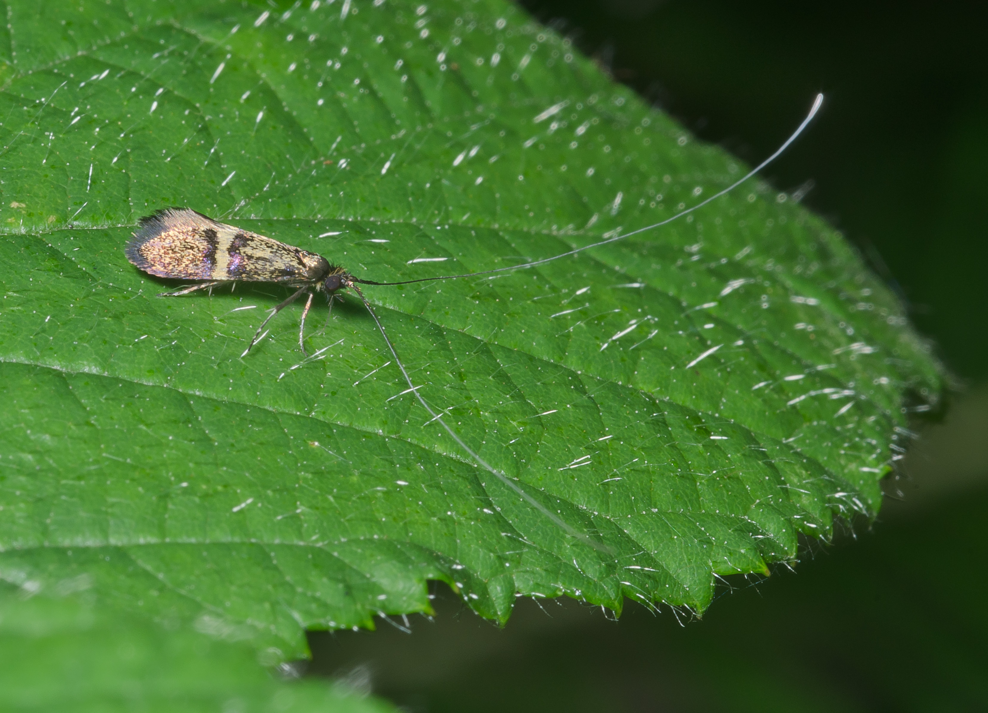 Nemophora degeerella, m, forest near Stuttgart, Germany. Thanks to the members of Entomologie.de for the identification.